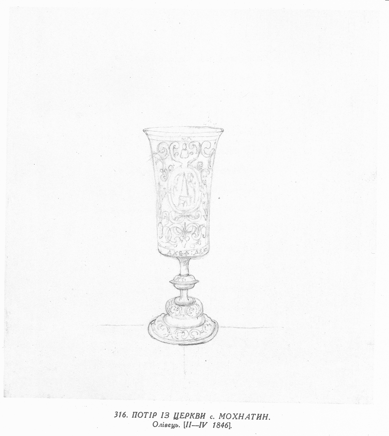 Painting of Taras Shevchenko